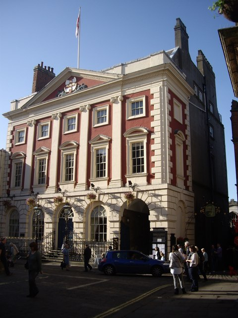 City of York Mansion House Frontage on St Helen's Square.